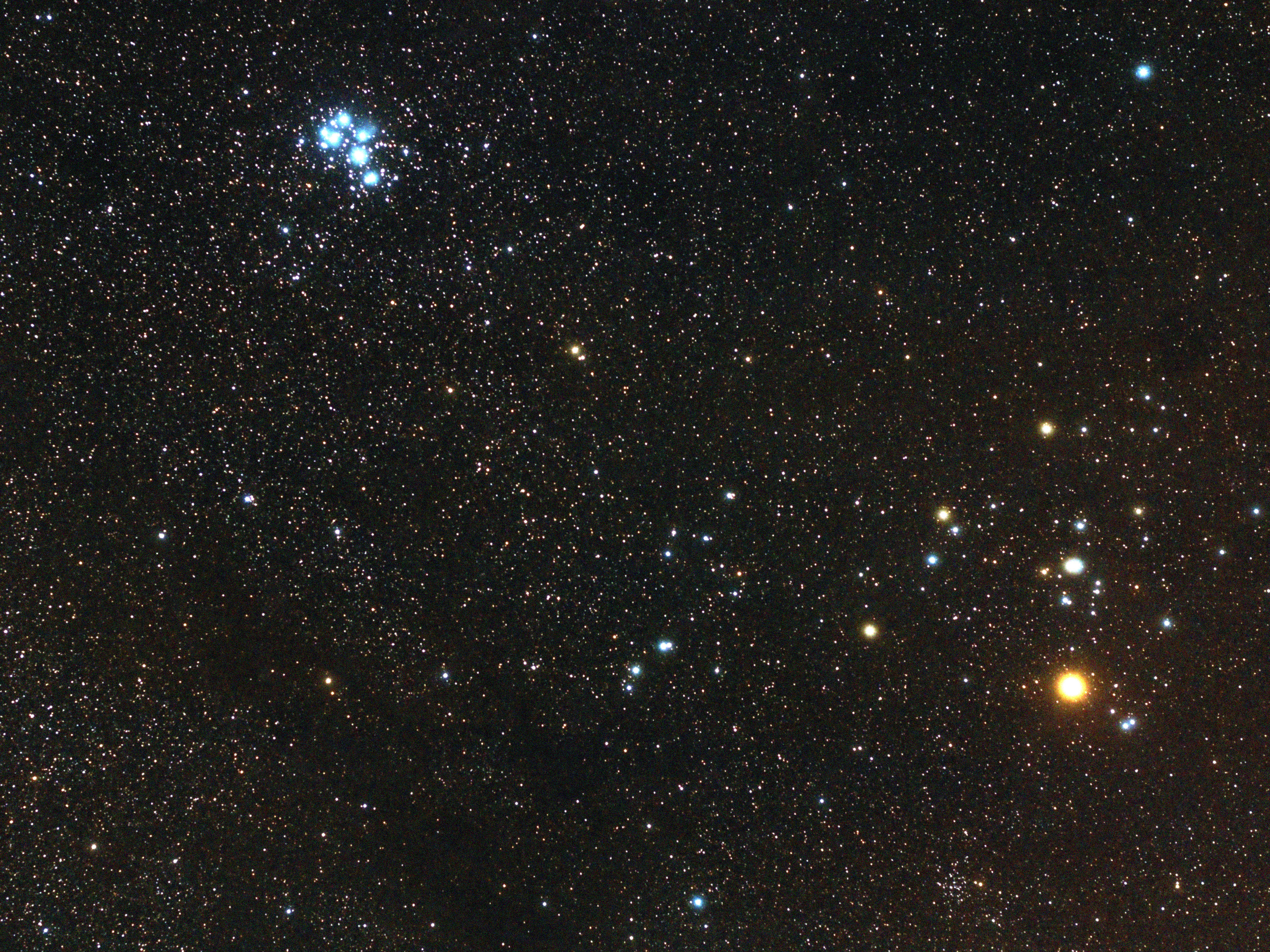 Hyades and Pleiades. Astroinseguitore SkyTracker PRO iOptron test